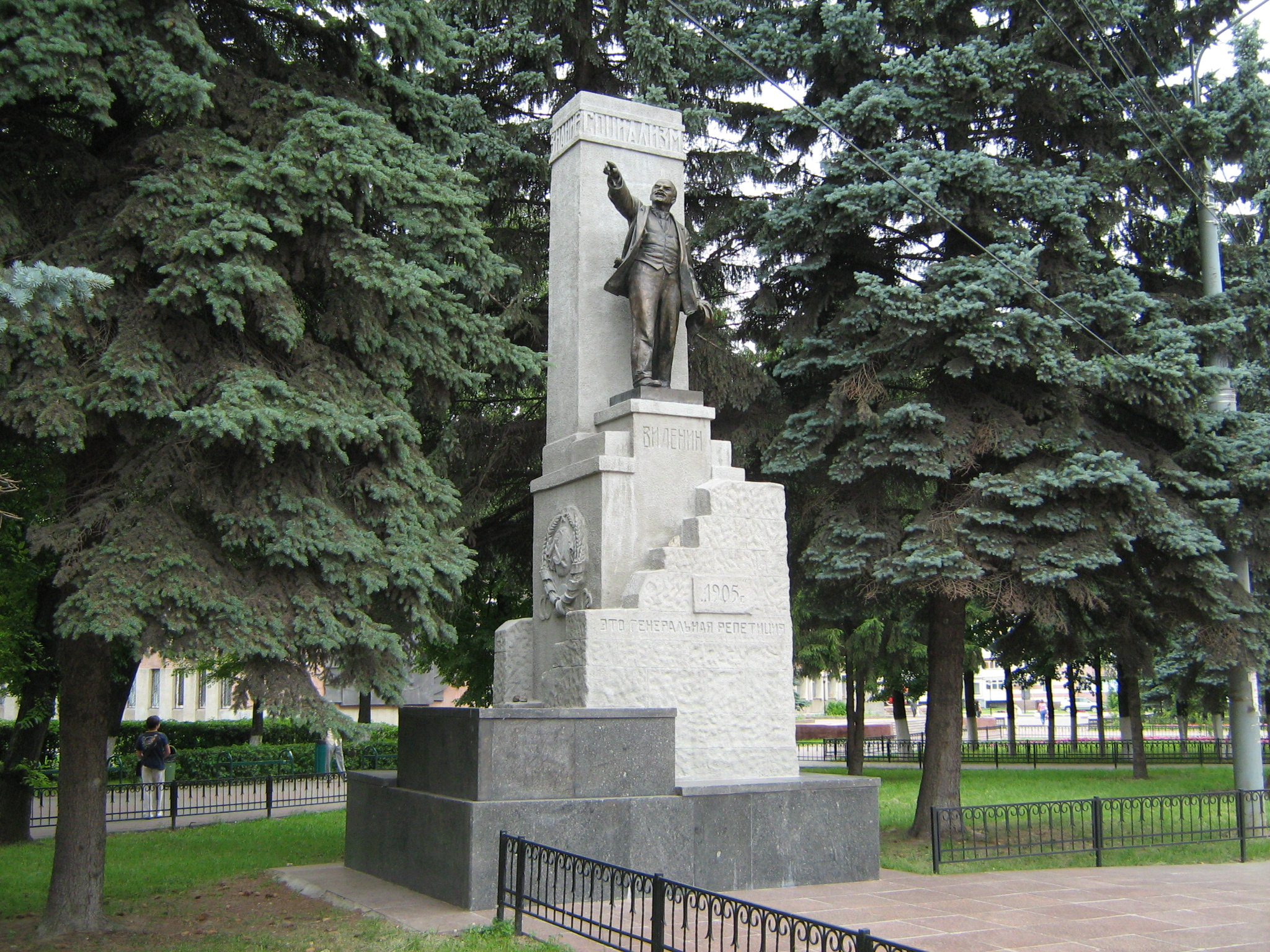 Lenin monument n Komintern St in central Sormovo. Decorated with an early version of the Coat of Arms of the USSR (with just 7 ribbons), the monument was built in the early years of the USSR